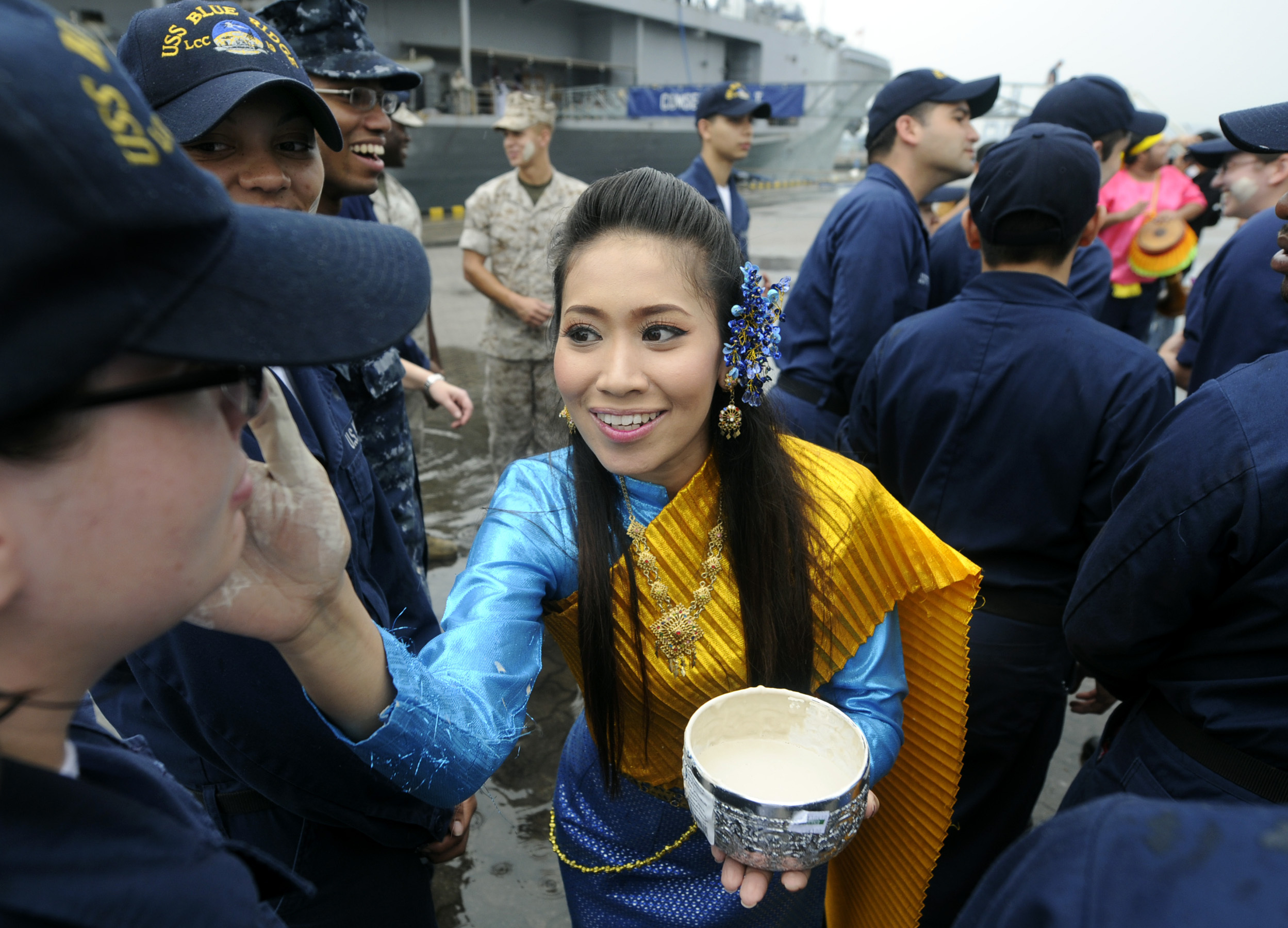 Thai dancers in traditional dress perform a cleansing ritual for Sailors assigned to the U.S. 7th Fleet command ship USS Blue Ridge during Songkran festival, or Thai New Year, as Blue Ridge arrives in Pattaya, Thailand. Sailors and Marines aboard Blue Ridge offloaded boxes of toys, shoes, and clothing to be delivered as part of project Goodwill.